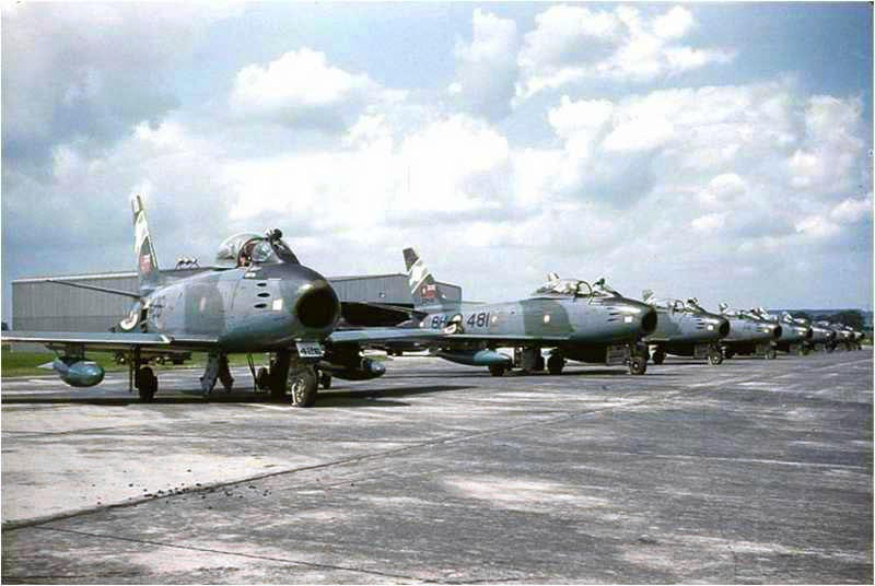 Sabres of No. 430 Squadron, Royal Canadian Air Force (RCAF) on Zulu alert at RCAF Station Grostenquin, France, June 1960.